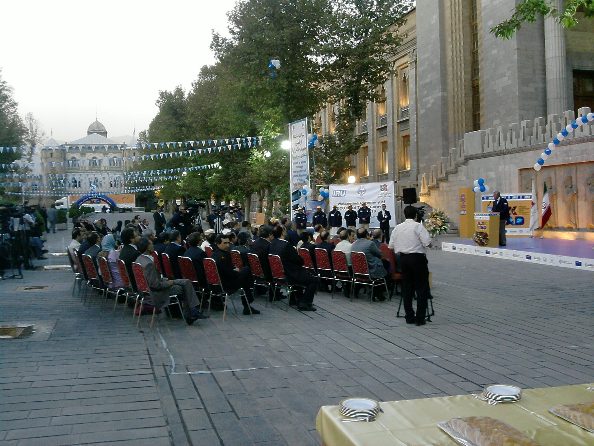 MINISTRY OF FM IRAN AFTER RENOVATION